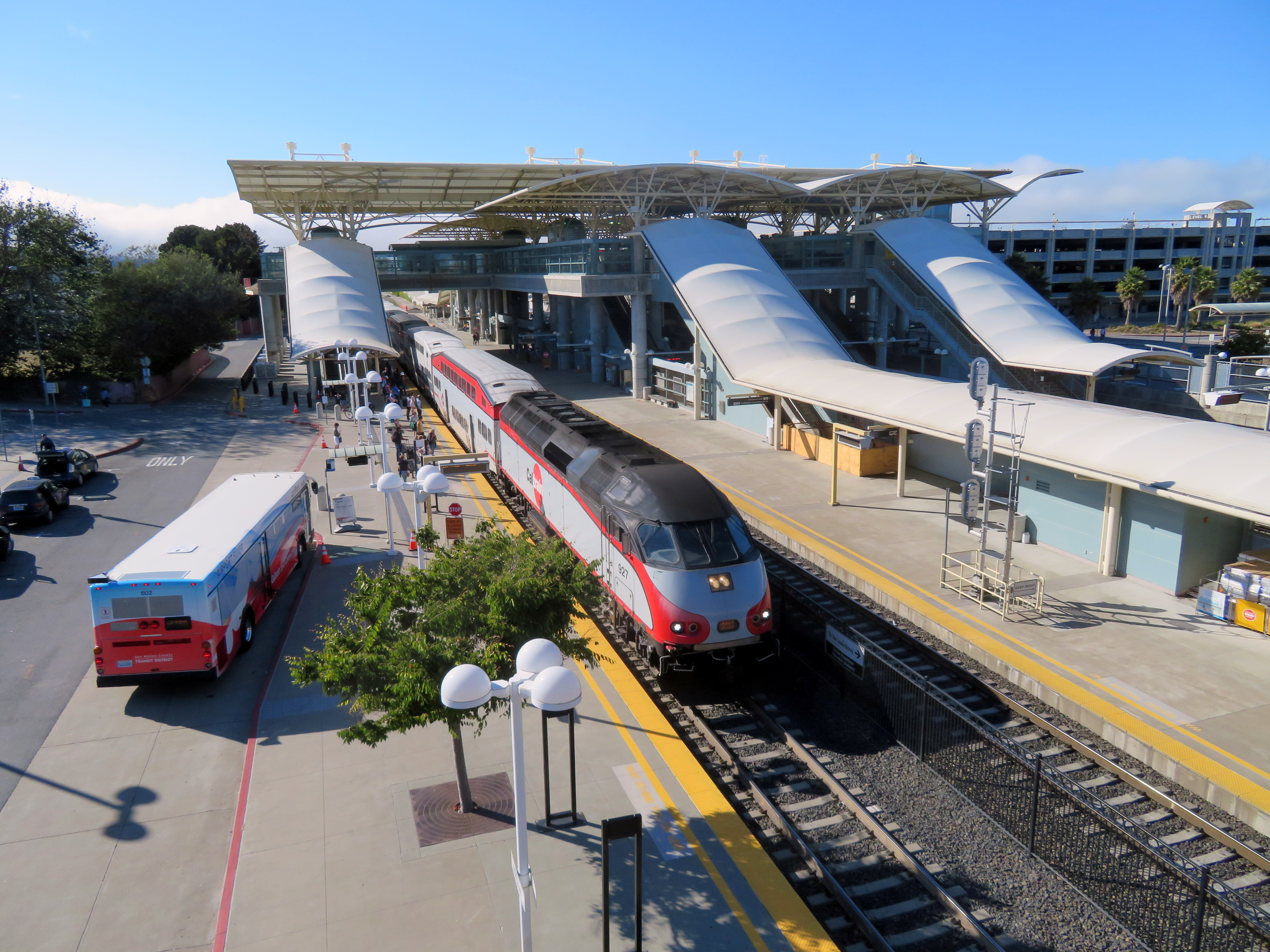 Millbrae station from Millbrae Avenue in July 2018. A southbound Caltrain train and a SamTrans Airport Flyer bus are at the station.